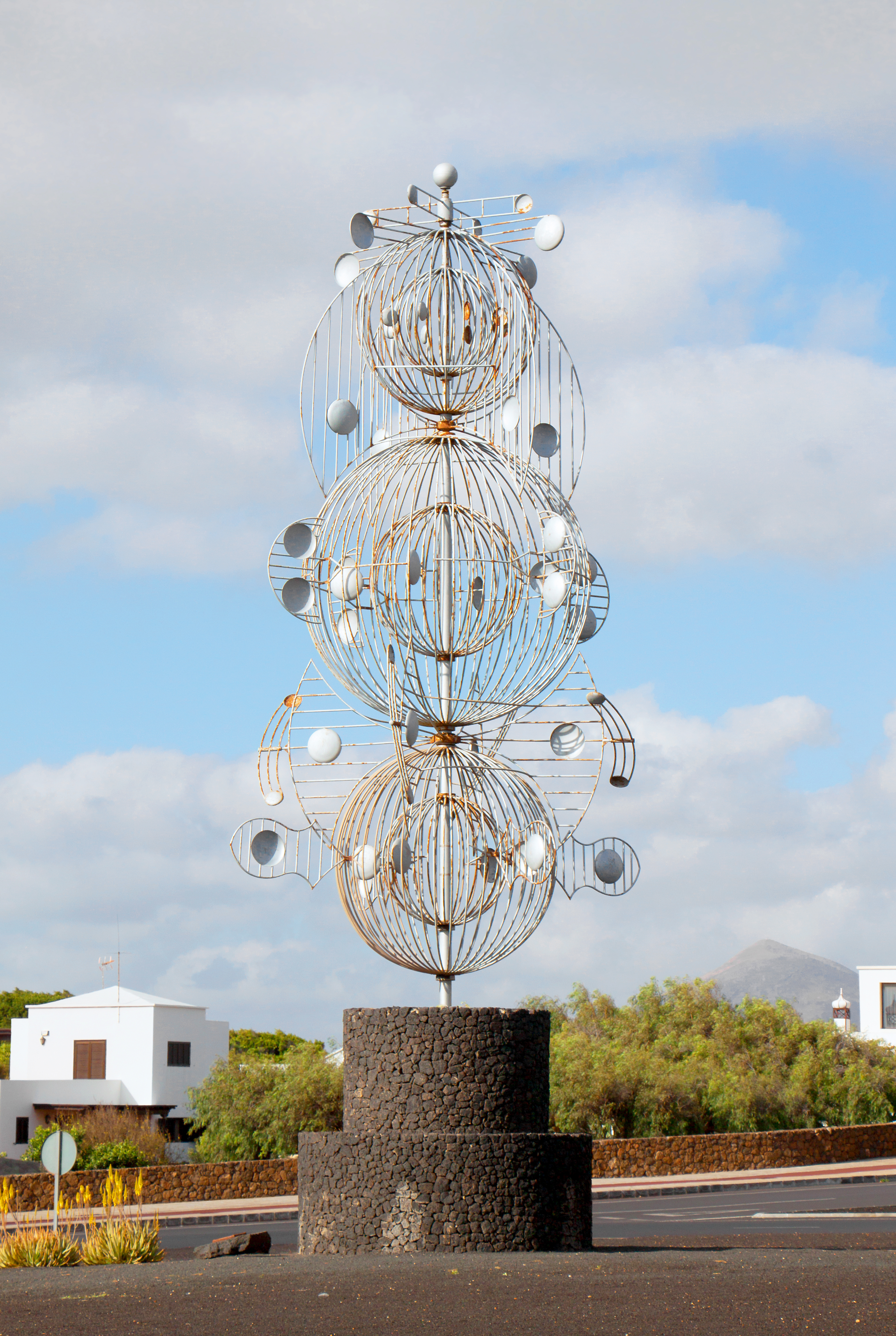 The large wind toy by César Manrique at the roundabout of road LZ-1 and LZ-10, Tahiche, Lanzarote, Canary Islands, Spain.